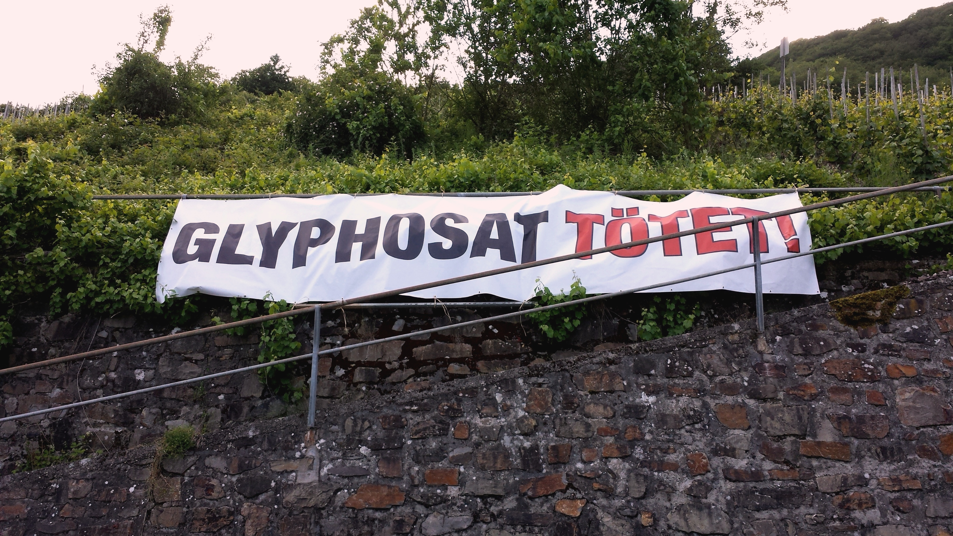 Protestbanner aginst the use of Glyphosat in the German wine village Bremm Mosel